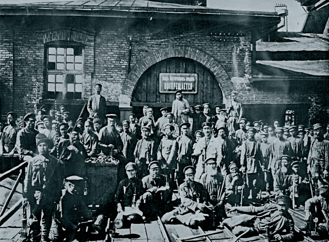 Before descent in mine «К.Skal’kovskiy» (now subburbs of Lysychansk town).